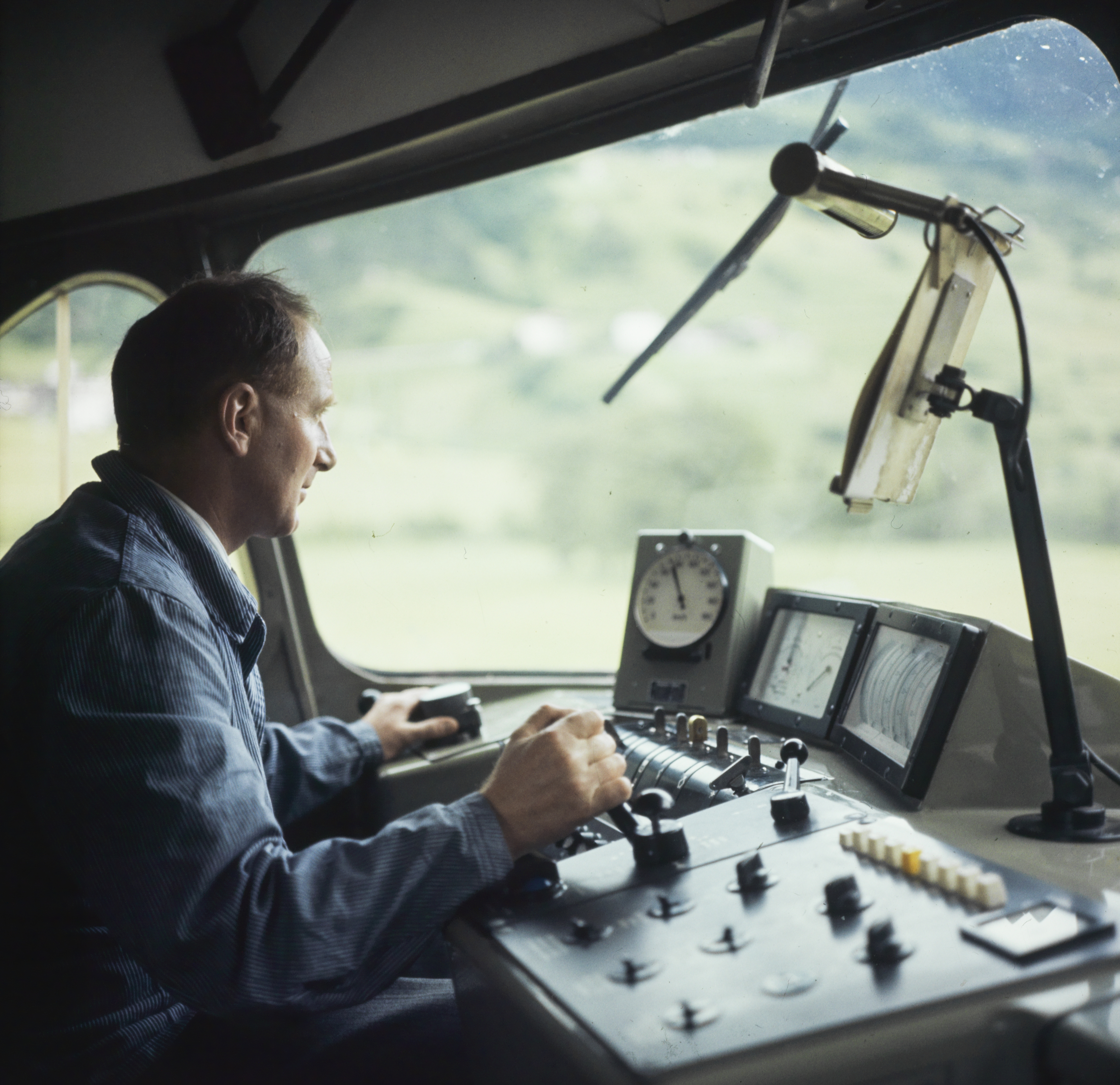 Engine driver of a SBB CFF FFS RAe TEE II.